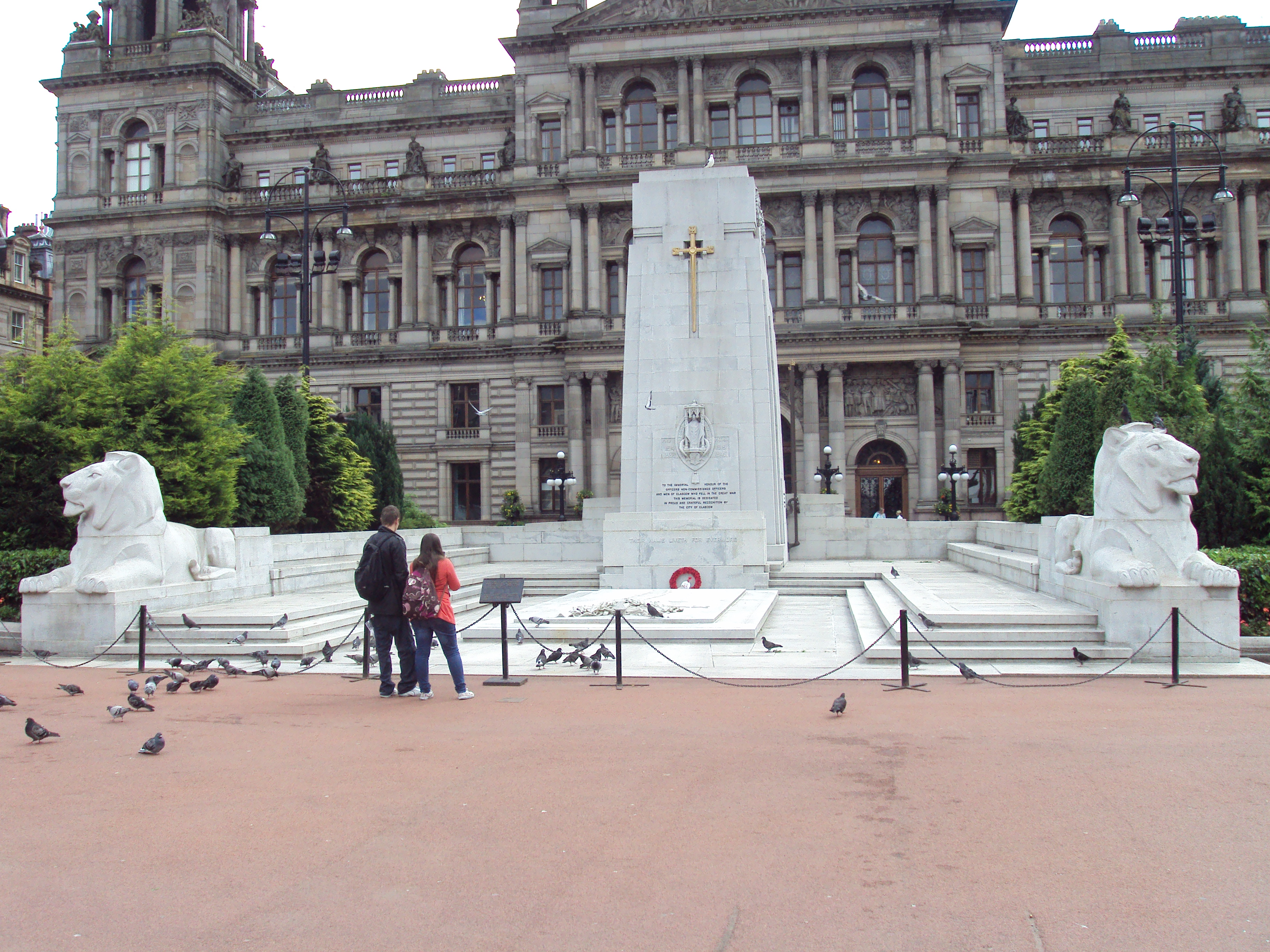 War Memorial in George Square, Glasgow, Scotland.